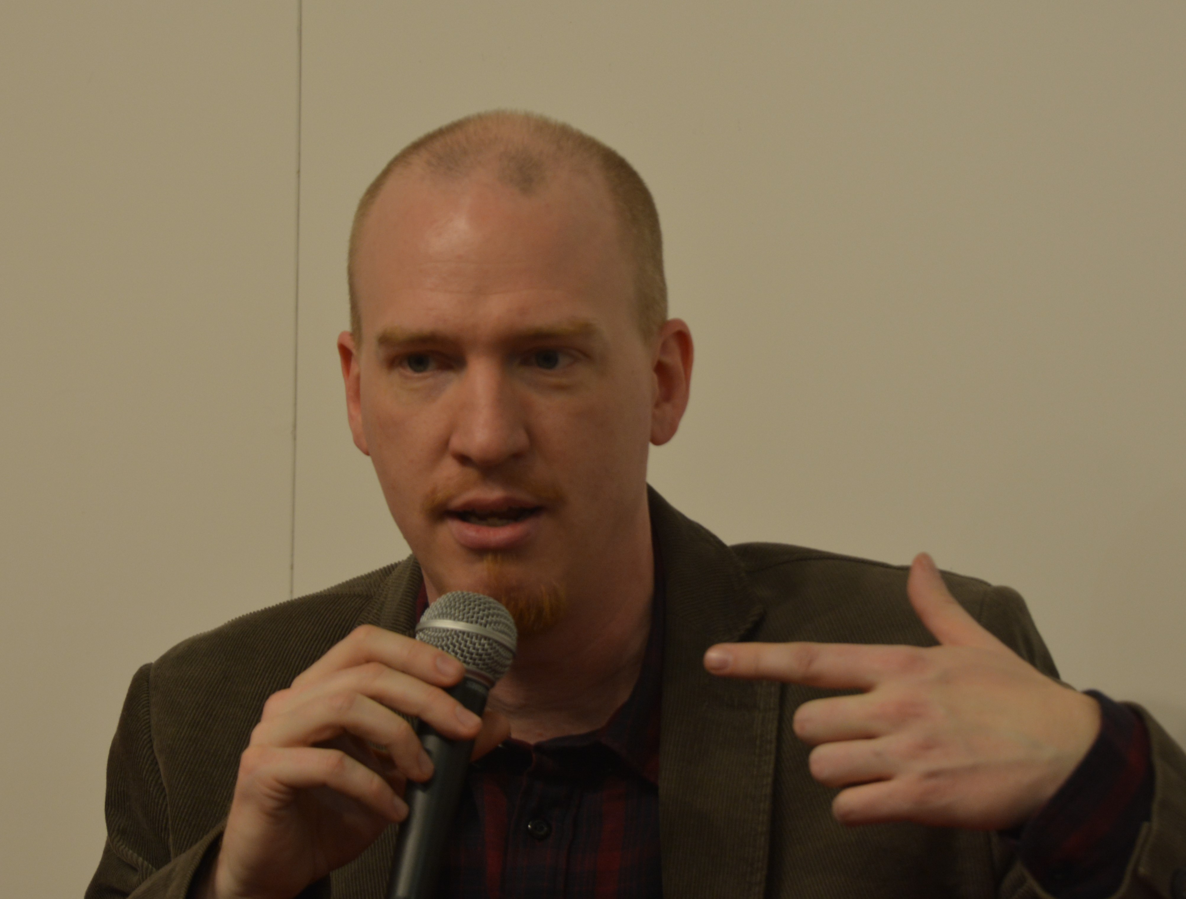 Patrik Hagman på Bokmässan i Göteborg 2016